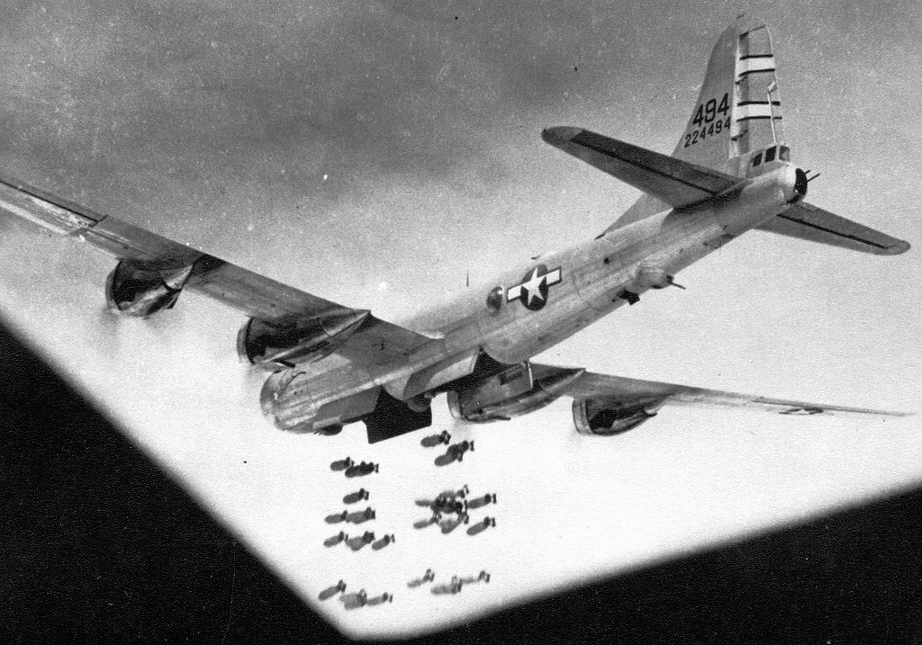 Boeing B-29 42-4494 792 BS, 468d BG